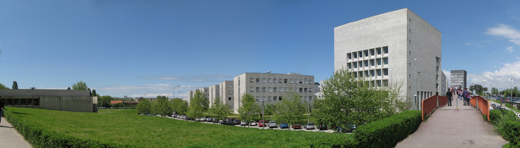 FEUP – On The Curve